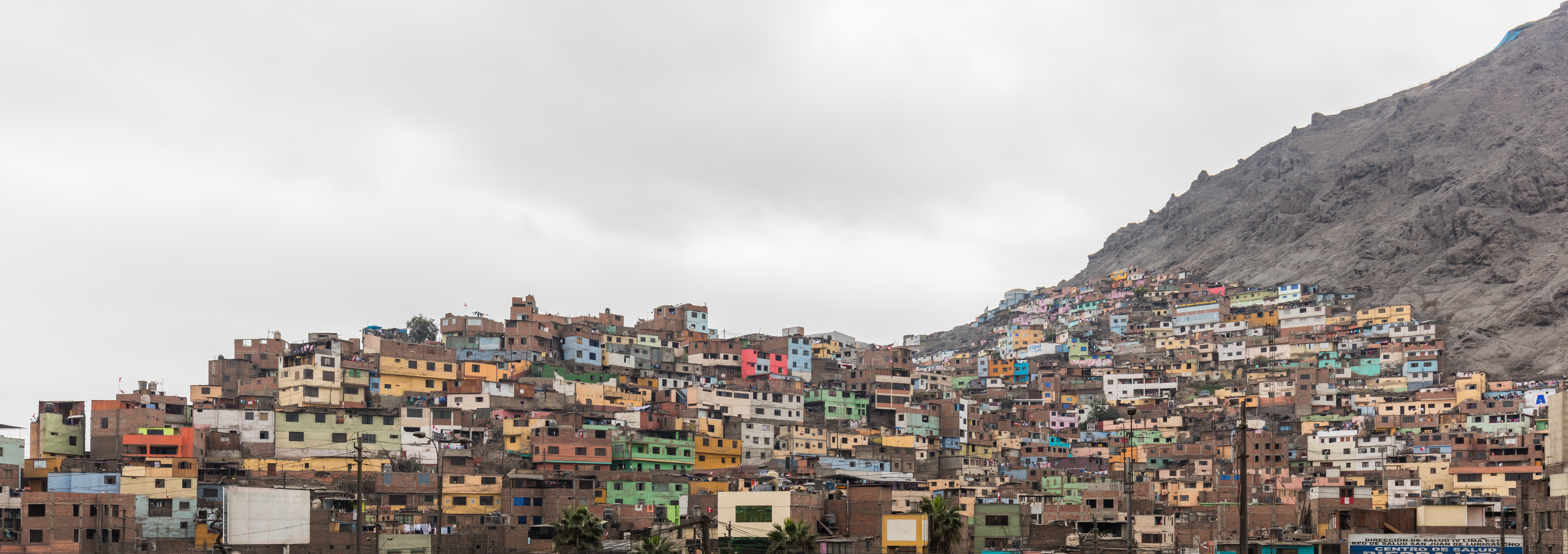 San Cristobal hill, Lima, Peru